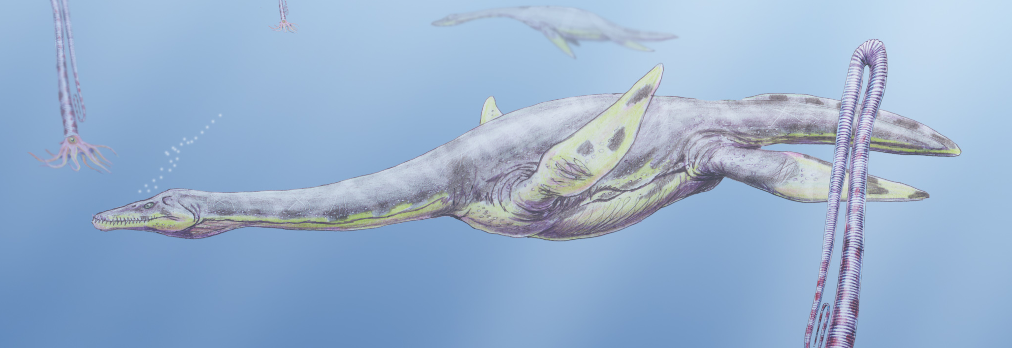 Aristonectes parvidens (with Diplomoceras ammonites)